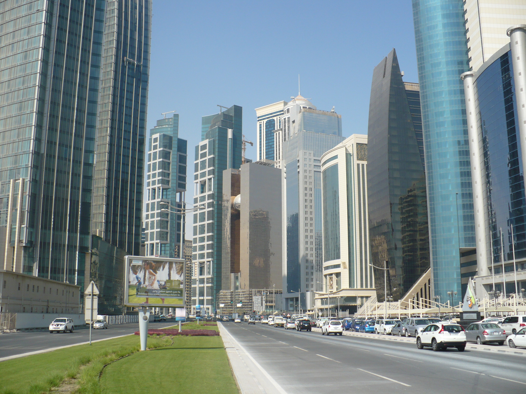 Skyscrapers along a road in Al Dafna, downtown Doha, Qatar.